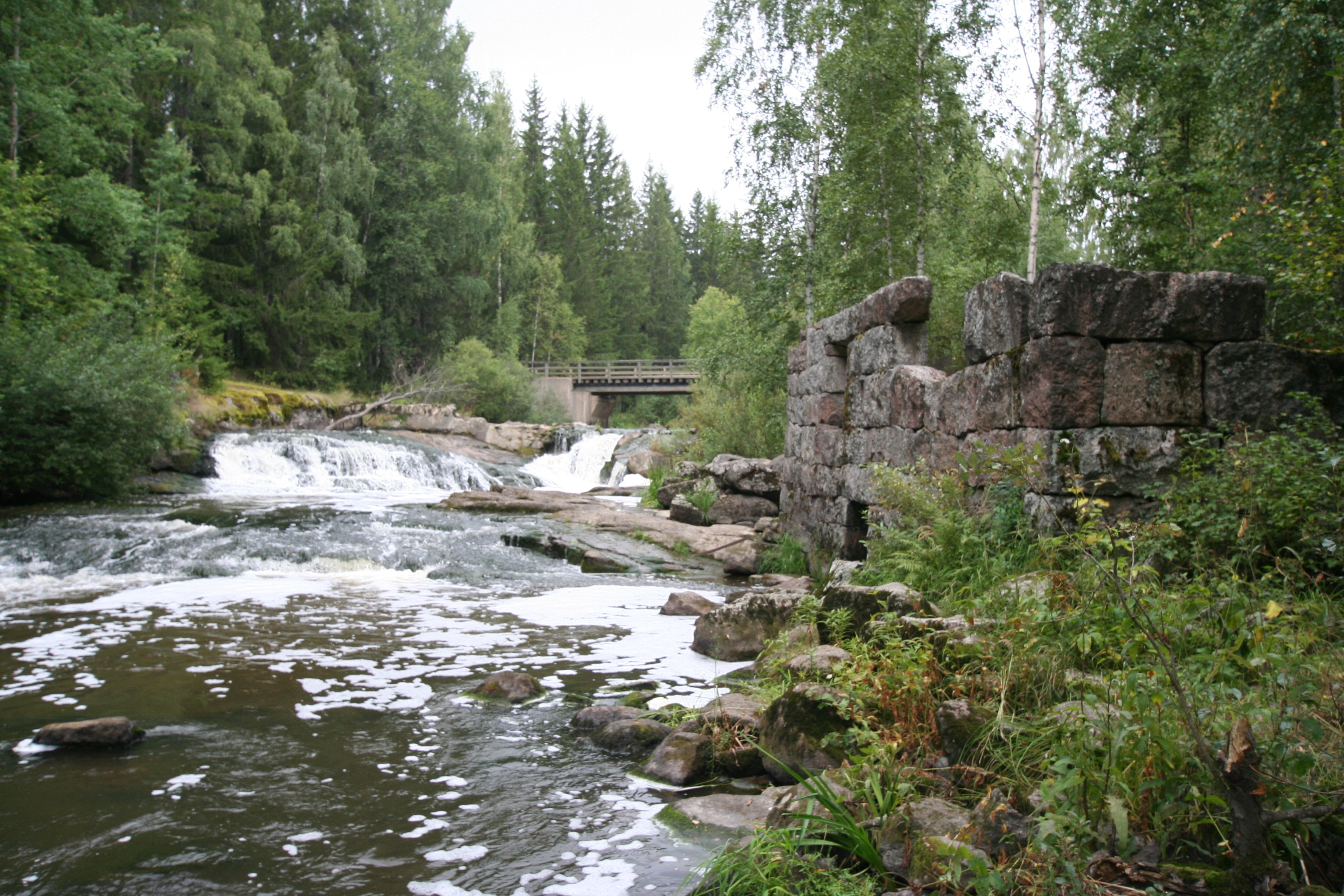 Rapids in Virenoja, Porvoonjoki